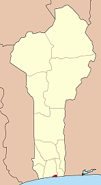 Map of Benin highlighting the department Littoral